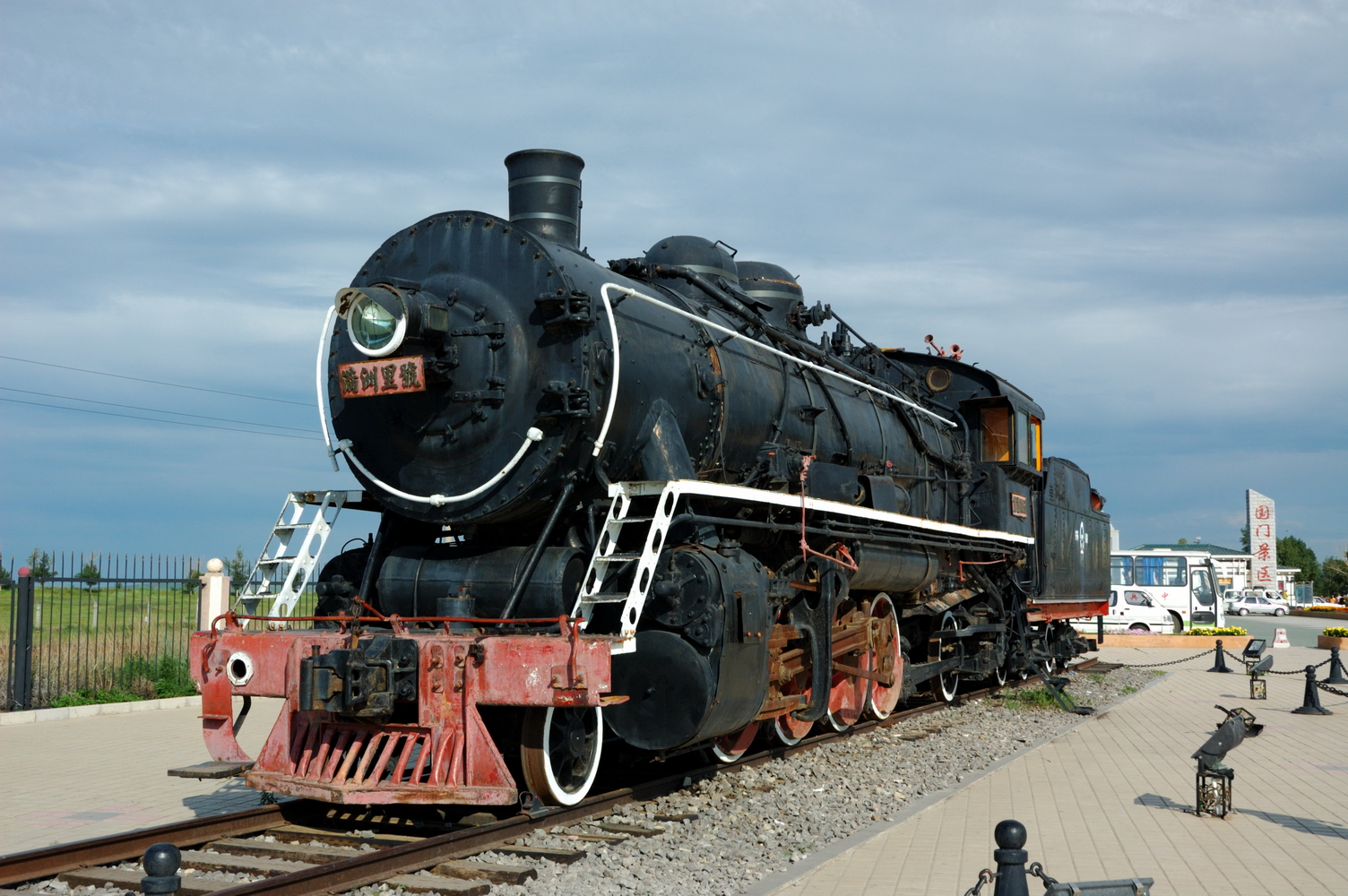 红色火车，满洲里號 Steam locomotive Manzhouli